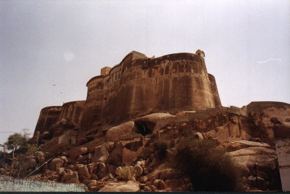 JAI